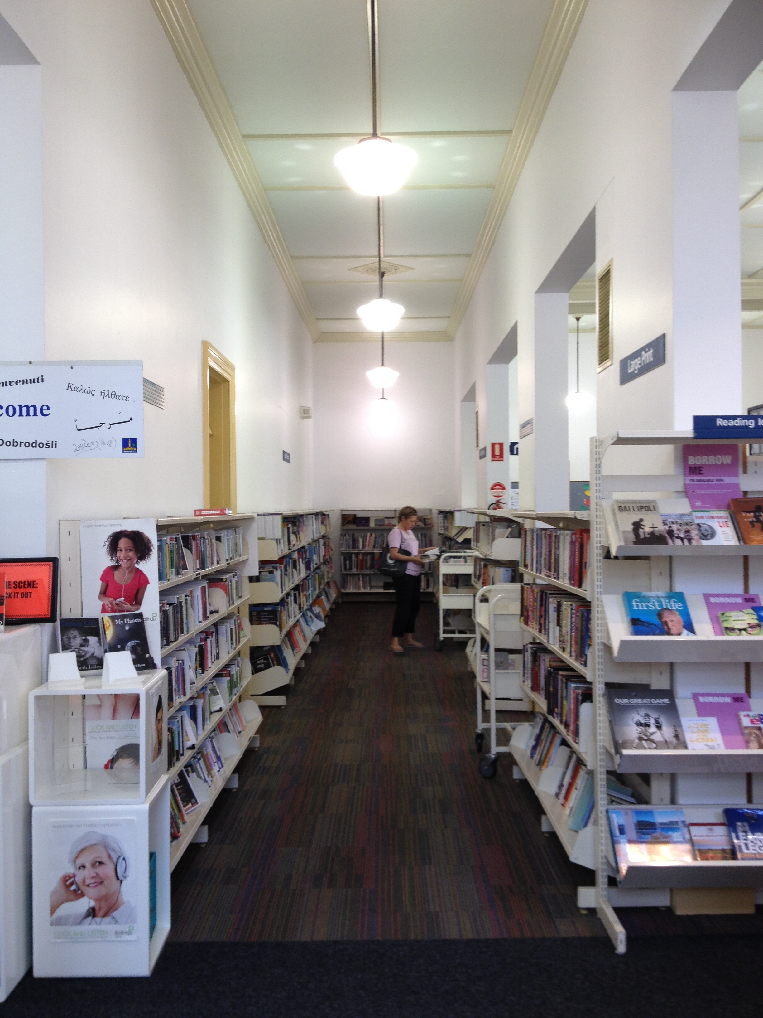 Hamilton Town Hall, Brisbane